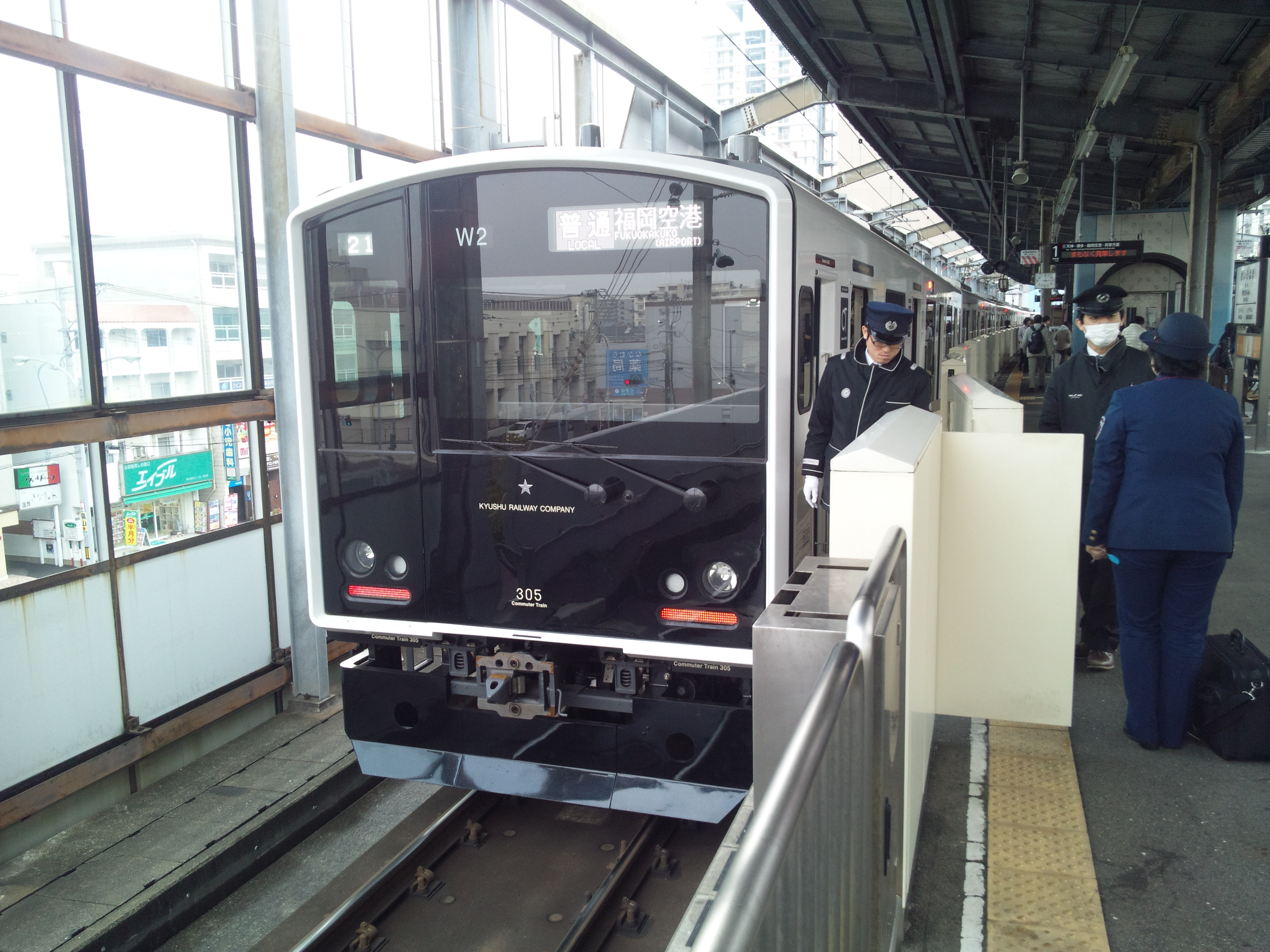 JR Kyushu 305 series EMU set W2 at Meinohama Station